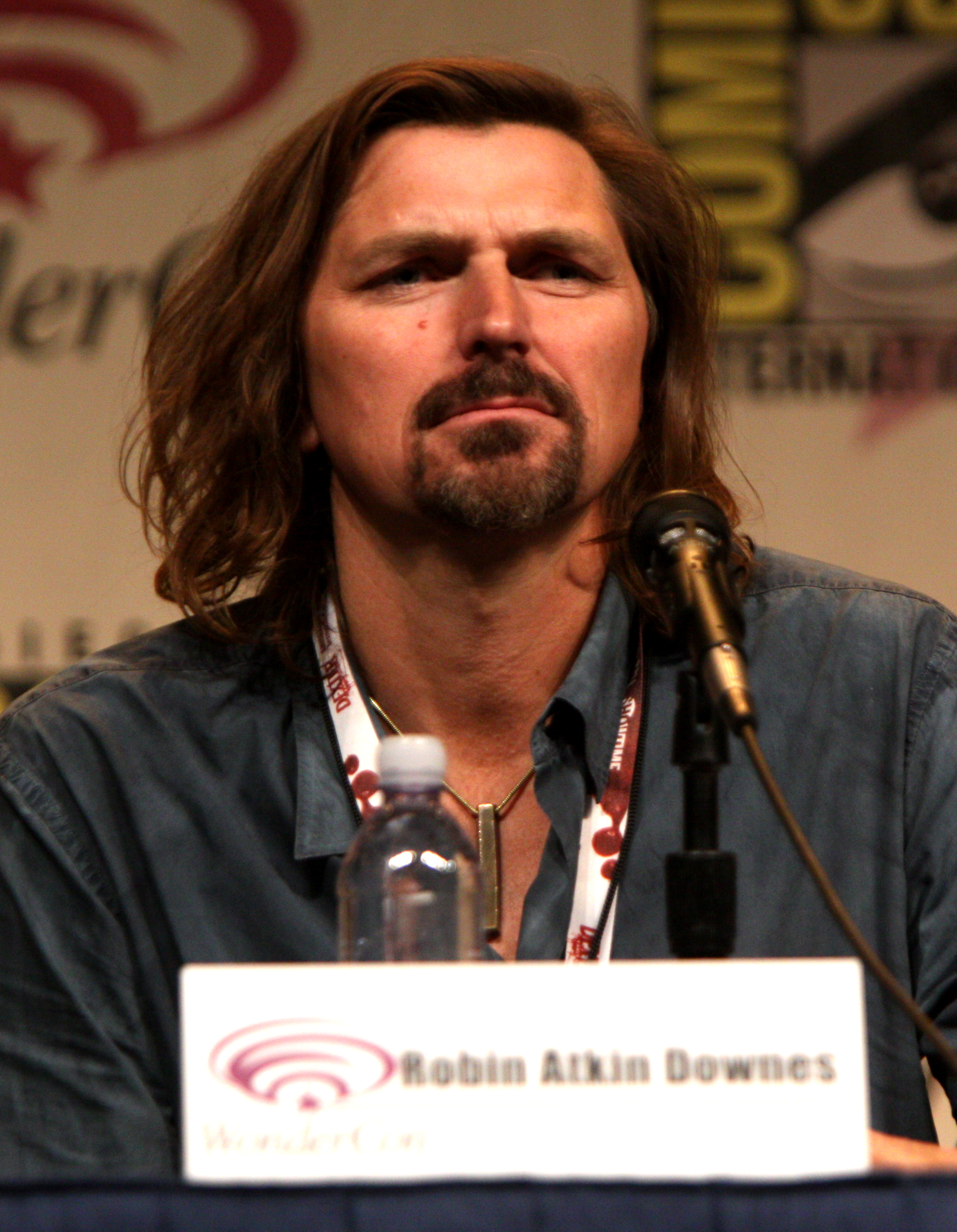 Robin Atkin Downes speaking at Wondercon 2012 in Anaheim, California on March 16, 2012.